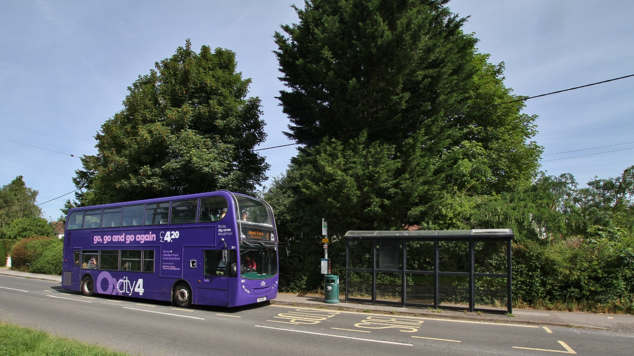 An Oxford Bus Company bus on route 4 in Oxford Road, Cumnor, Oxfordshire. The bus is an Alexander Dennis Enviro400H diesel-electric hybrid, registration mark HY11 BRD, fleet number 301.